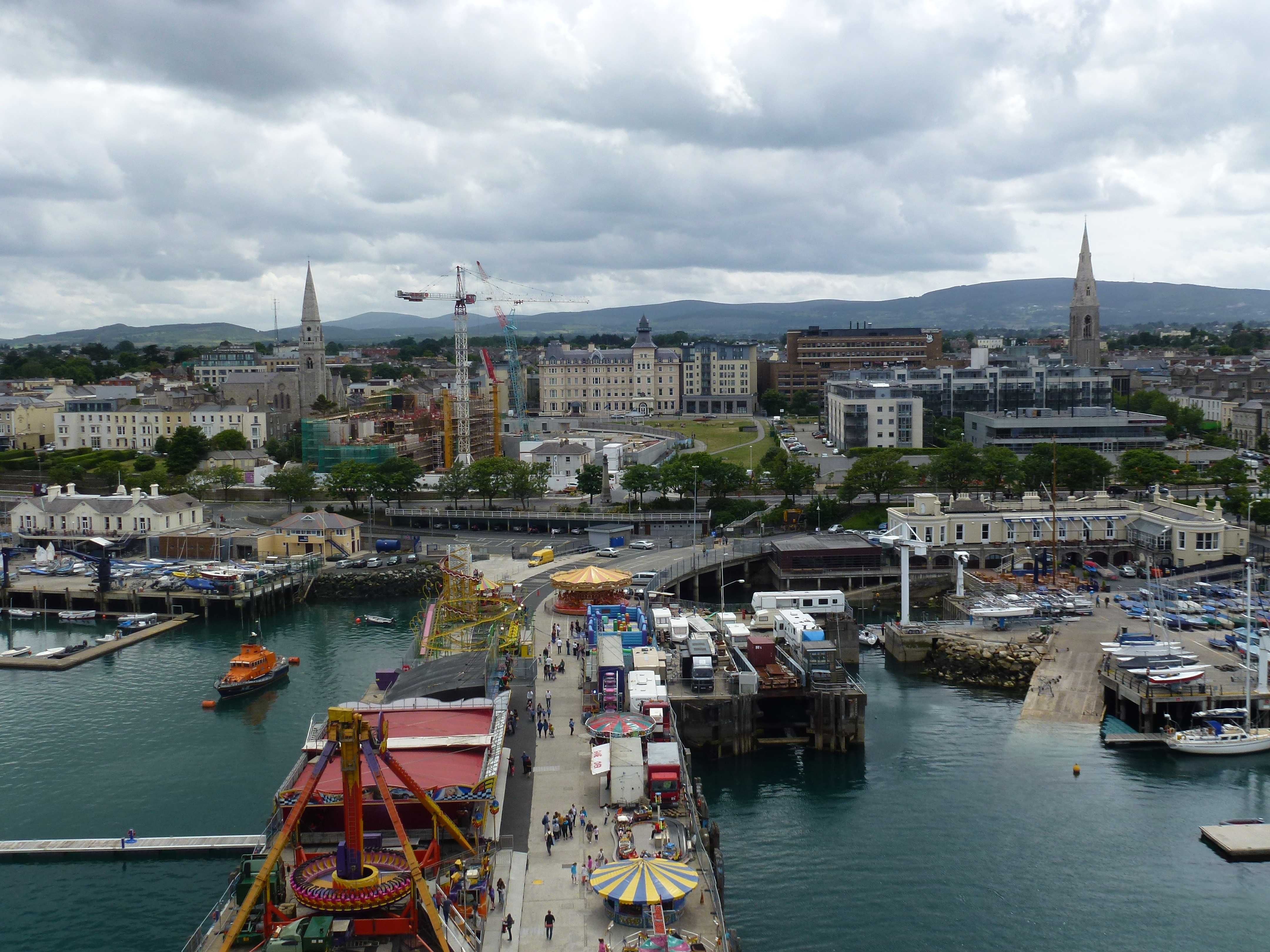 A view of Dun Laoghaire Town from the Ferris Wheel